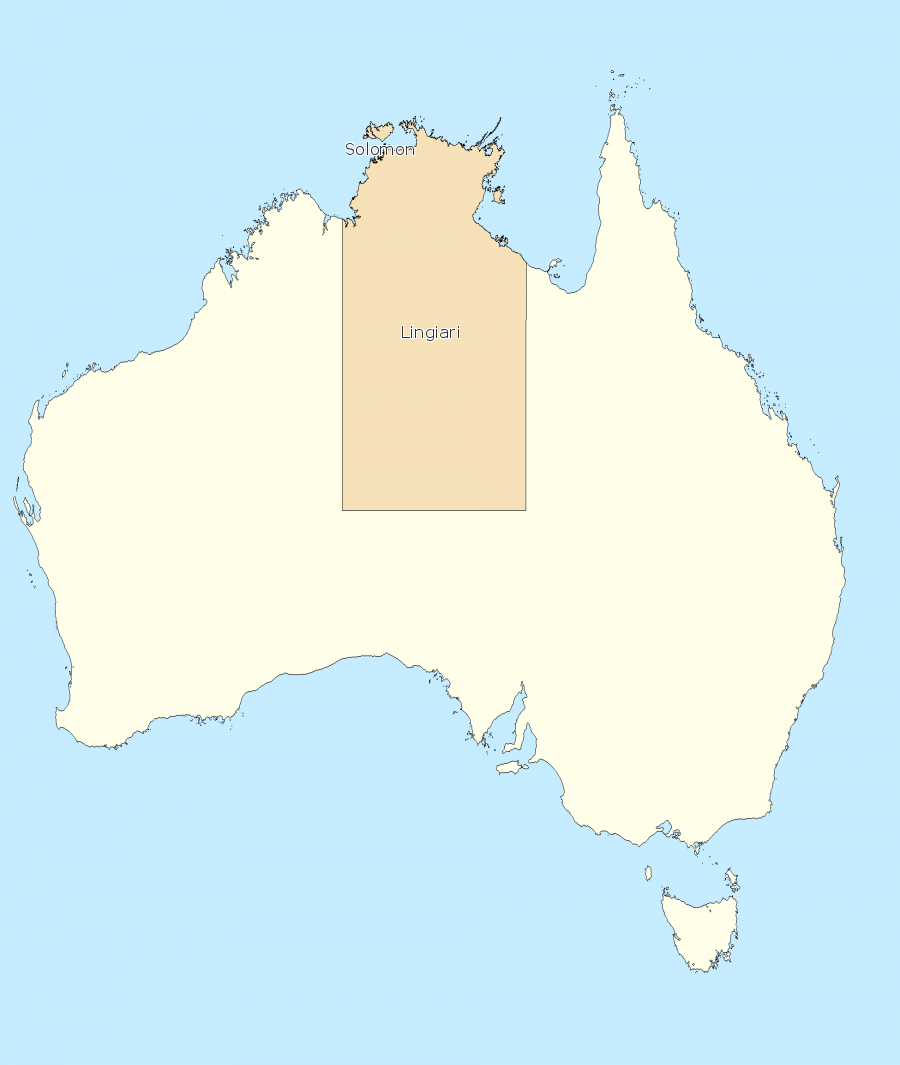 Incorporates or developed using Administrative Boundaries ©PSMA Australia Limited licensed by the Commonwealth of Australia under Creative Commons Attribution 4.0 International licence (CC BY 4.0). Derived from State and Territory Boundaries from the Australian Bureau of Statistics under Creative Commons Attribution 2.5 Australia license (CC BY 2.5 AU)